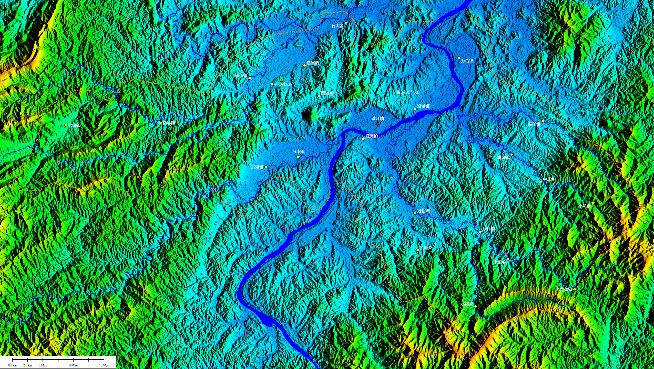 Relief Map of Taihe County, edited with Global Mapper. Elevation data downloaded from Shuttle Radar Topography Mission (Public domain).